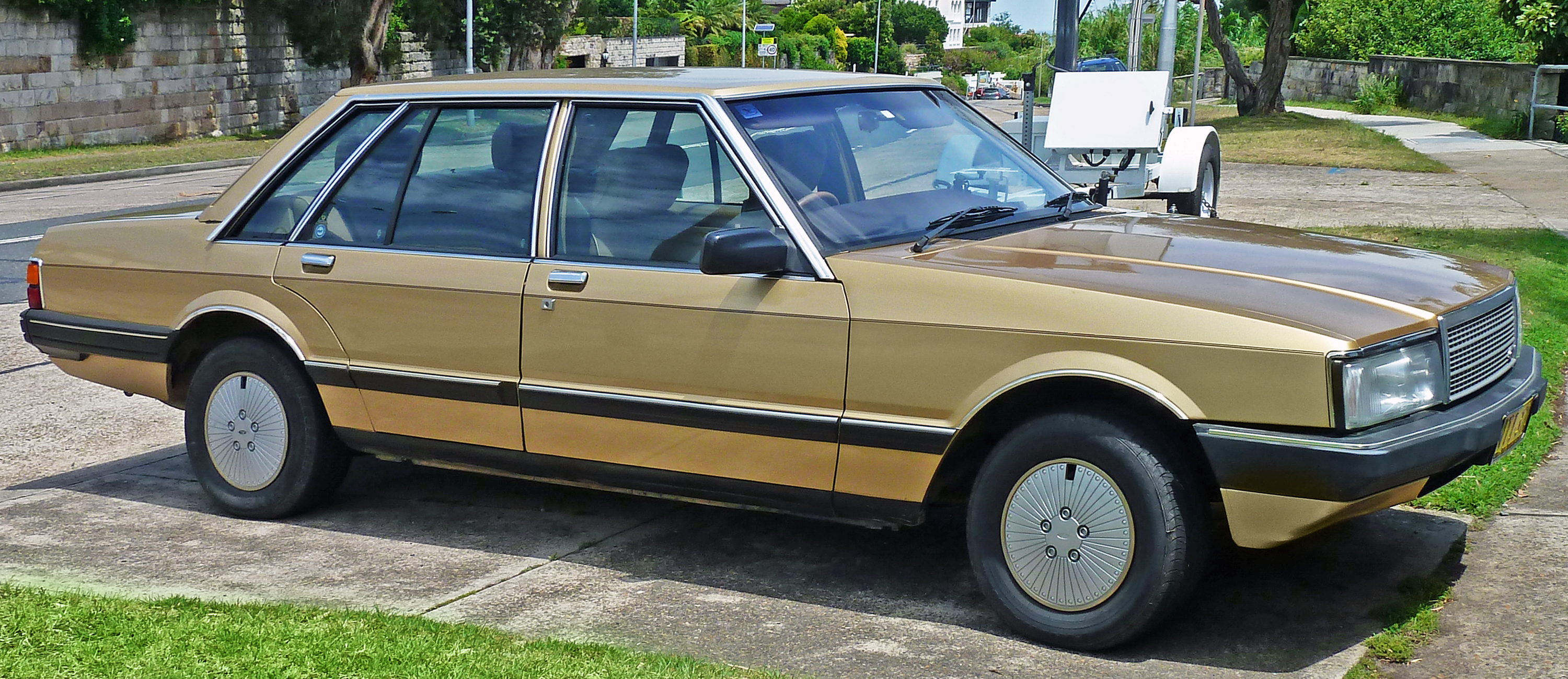 1984–1986 Ford ZL Fairlane sedan. Photographed in Vaucluse, New South Wales, Australia.